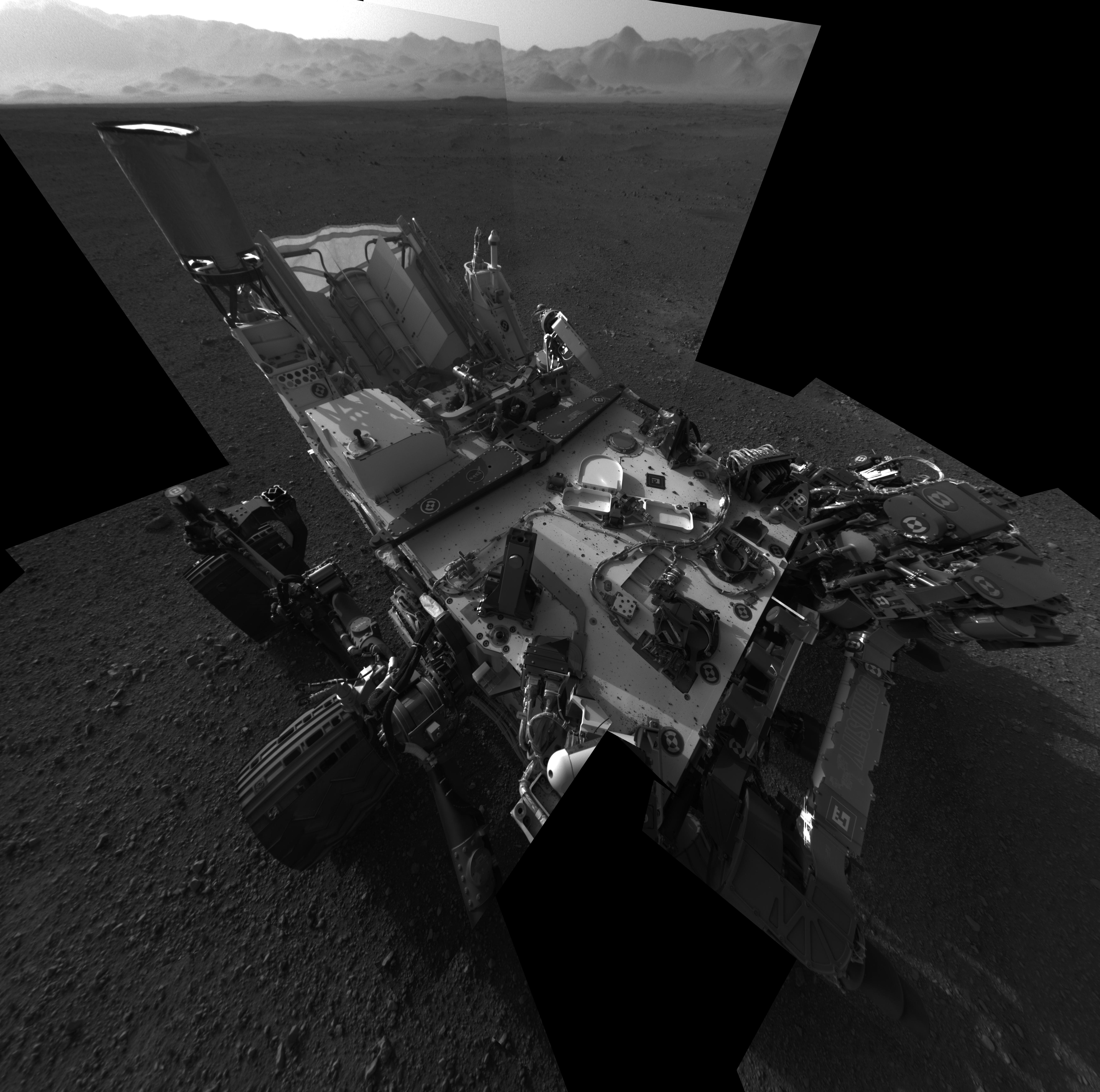 This full-resolution self-portrait shows the deck of NASA's Curiosity rover from the rover's Navigation camera. The back of the rover can be seen at the top left of the image, and two of the rover's right side wheels can be seen on the left. The undulating rim of Gale Crater forms the lighter color strip in the background. Bits of gravel, about 0.4 inches (1 centimeter) in size, are visible on the deck of the rover. This mosaic is made of 20 images, each of 1,024 by 1,024 pixels, taken late at night on Aug. 7 PDT (early morning Aug. 8 EDT). It uses an average of the Navcam positions to synthesize the point of view of a single camera, with a field of view of 120 degrees. Seams between the images have been minimized as much as possible. The wide field of view introduces some distortion at the edges of the mosaic. The "augmented reality" or AR tag seen on the rover deck, in the middle of the image, can be used in the future with smart phones to obtain more information about the mission.